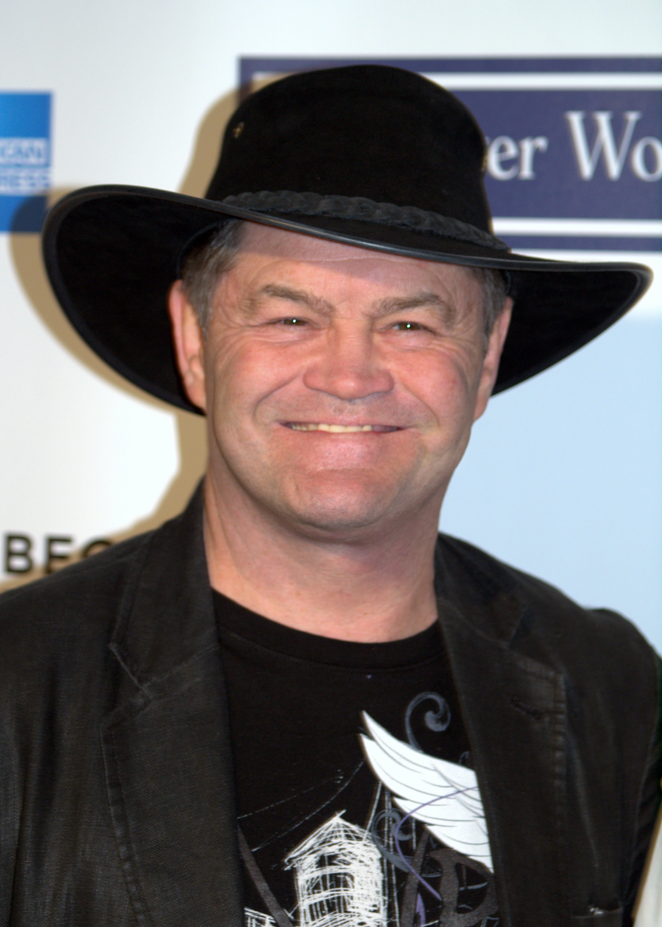 Mickey Dolenz at the 2009 Tribeca Film Festival premiere of Woody Allen's Whatever Works.